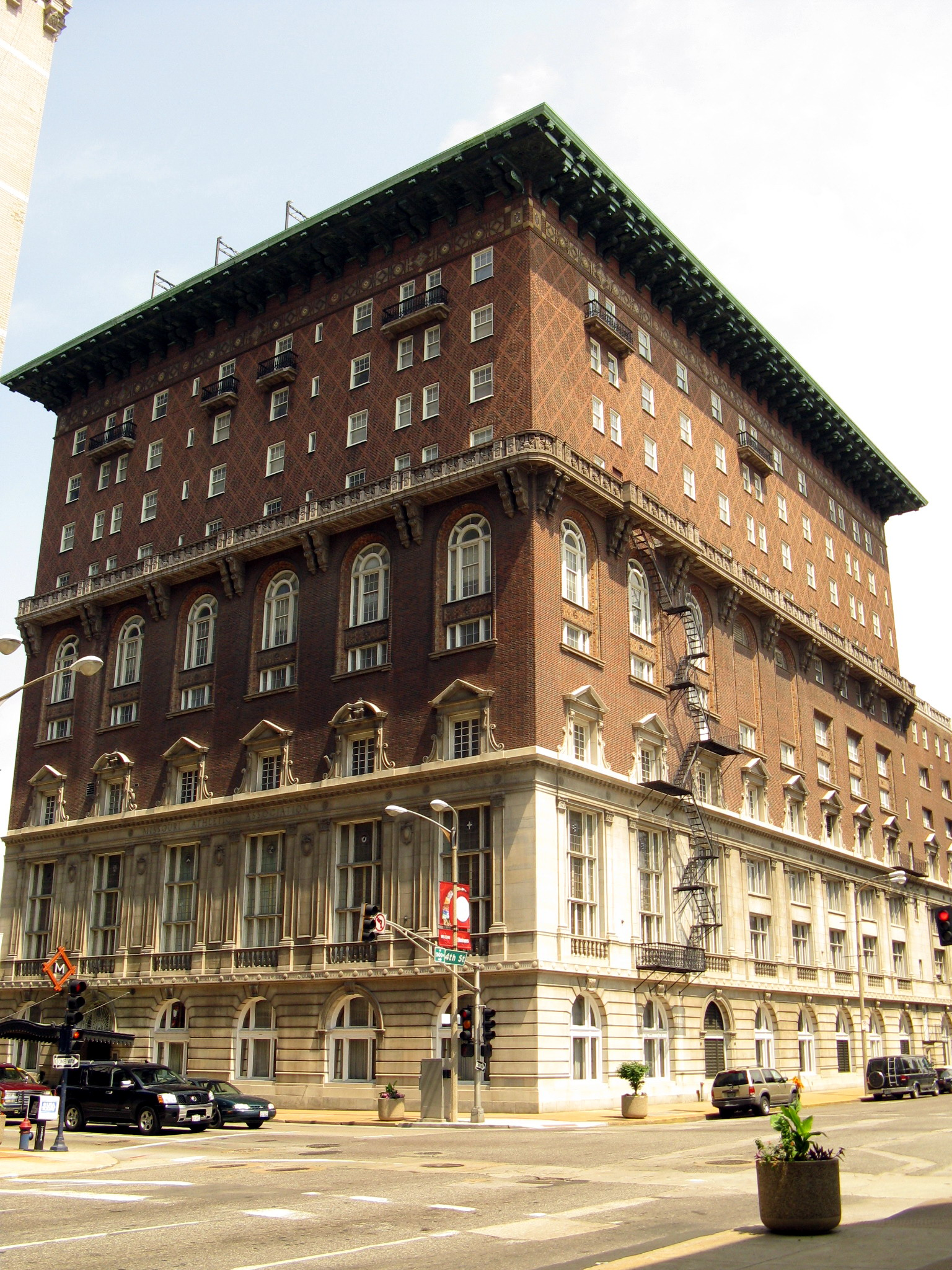 Missouri Athletic Club at N 4th St. and Washington Avenue. Built in 1915.